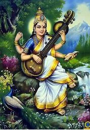 Saraswati devi